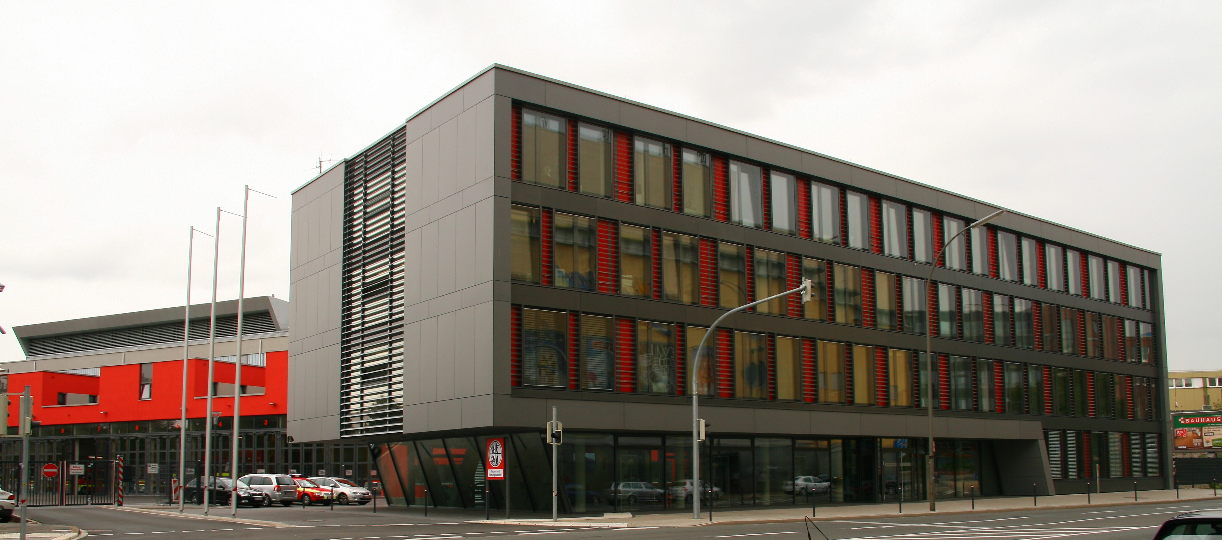 The newly constructed fire station Feuer- und Rettungswache 1 of Dortmund, Germany.